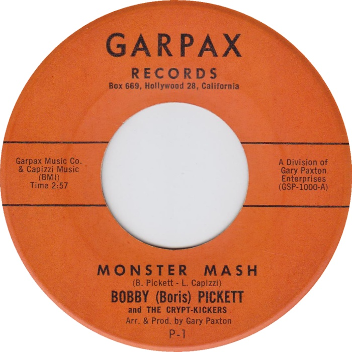 A-side label of the 7-inch US vinyl release of "Monster Mash" by Bobby "Boris" Picket